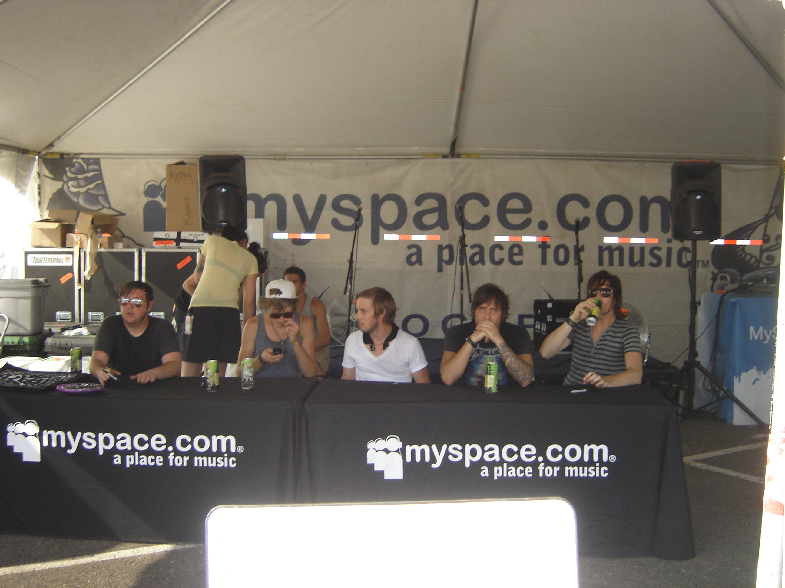 A picture of the band Anberlin before an autograph session during the 2007 Warped Tour in Phoenix, AZ at Cricket Pavilion.